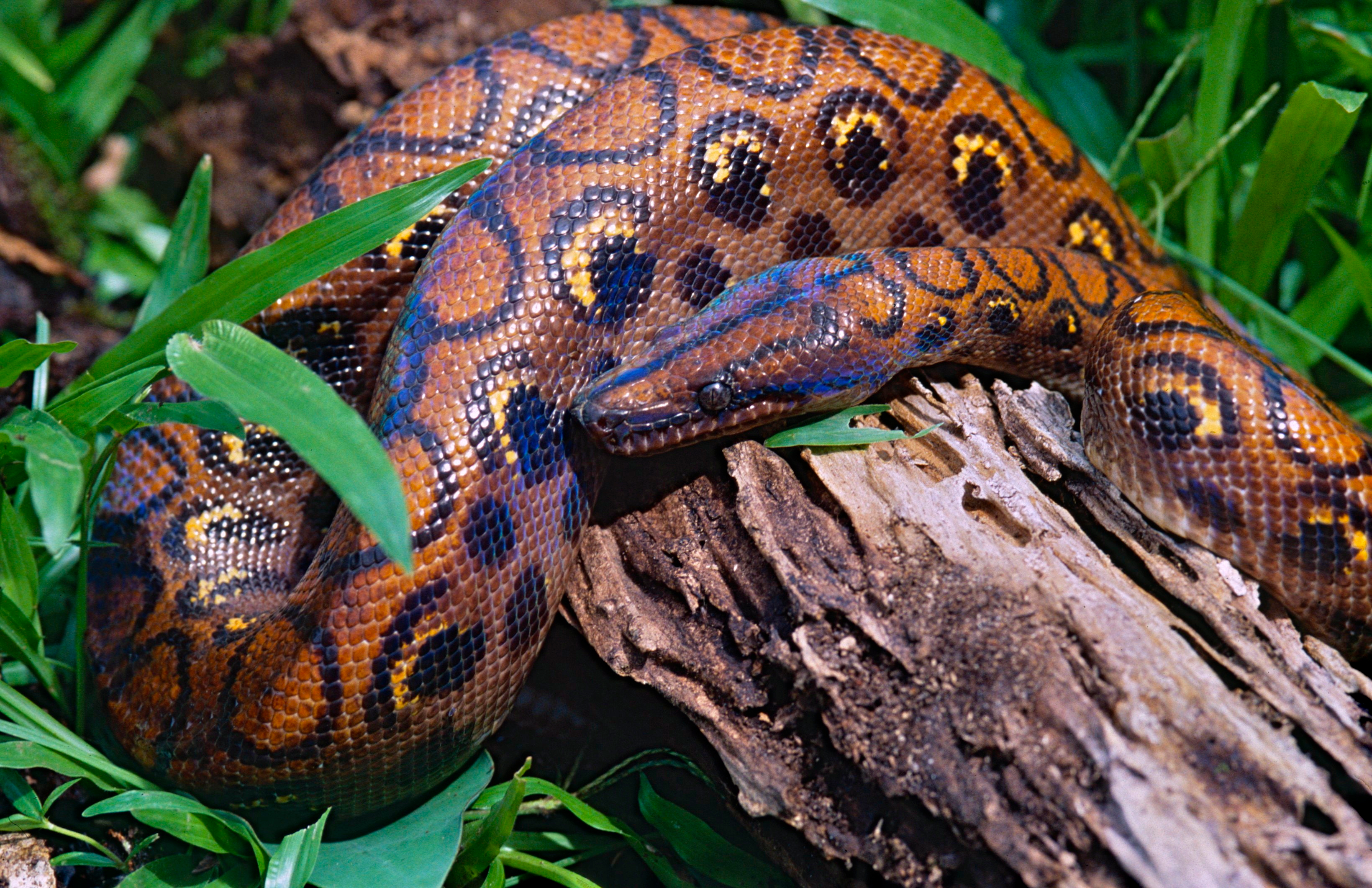 Montagne de Kaw, Guyane, FRANCE Scanned Slide from 2001